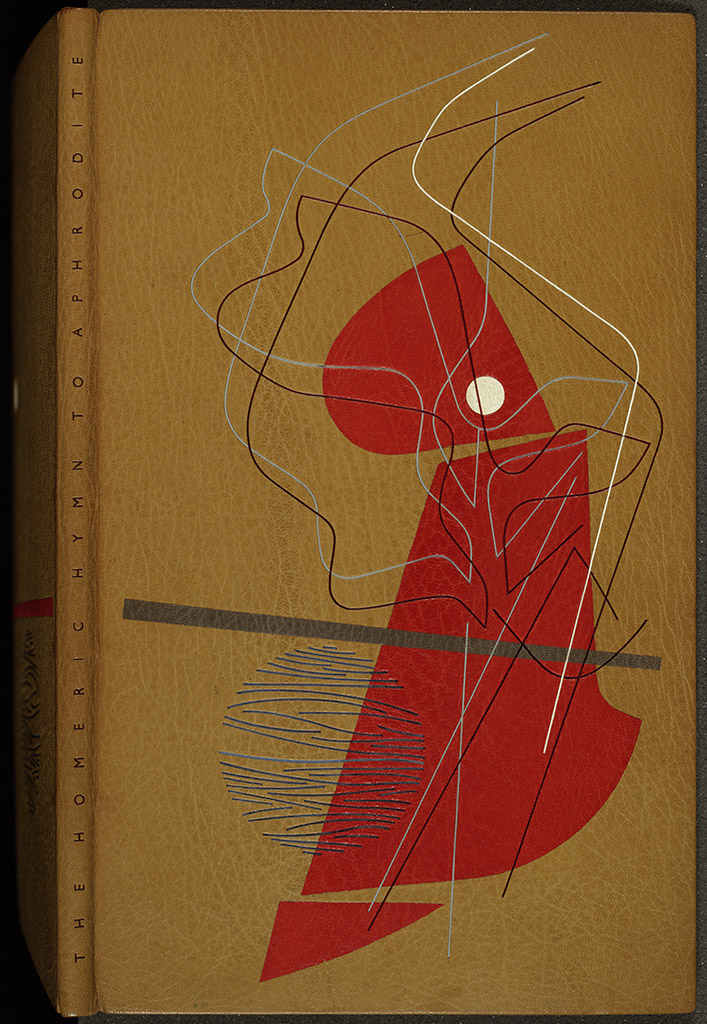 Homeric hymn is bound in mustard goatskin inlaid with red, grey and white, and tooled in white, grey, dark red, light and dark blue and blind (tooled without the use of colour). The spine is tooled in brown, the fore and bottom text edges are untrimmed, and the top text edges are gilt. Edgar Mansfield (1907-1996) was one of New Zealand’s most renowned expatriate artists, and was widely recognised, particularly in England, as one of the most innovative and influential 20th-century bookbinders. Born in London in 1907, Mansfield was brought up in Napier, New Zealand and after studying art in Napier and Dunedin, moved to London in 1934 to further his studies. His style is characterised by the asymmetrical treatment of rectangular space, the use of expressive, non-figurative designs, and the innovative use of colour, leather, and synthetic materials. This volume was bound in England. Purchased 1976 from Maggs Bros. Upper cover of The Homeric hymn to Aphrodite ([London]: Golden Cockerel Press, 1948). qRPr GOLD HOME 1948.